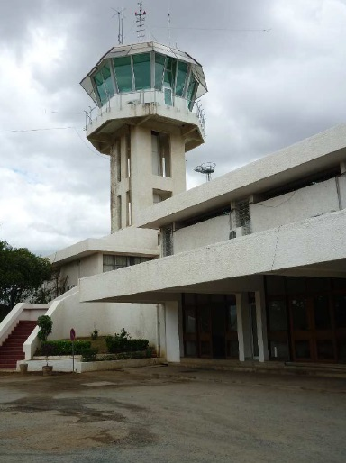 Tete airport, Mozambique